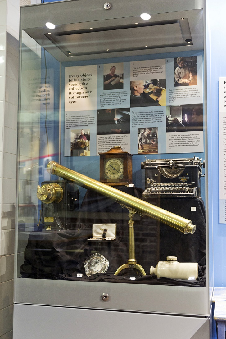 Objects from the Museum of the Scottish Shale Oil Industry collection, displayed in a volunteer-led exhibition